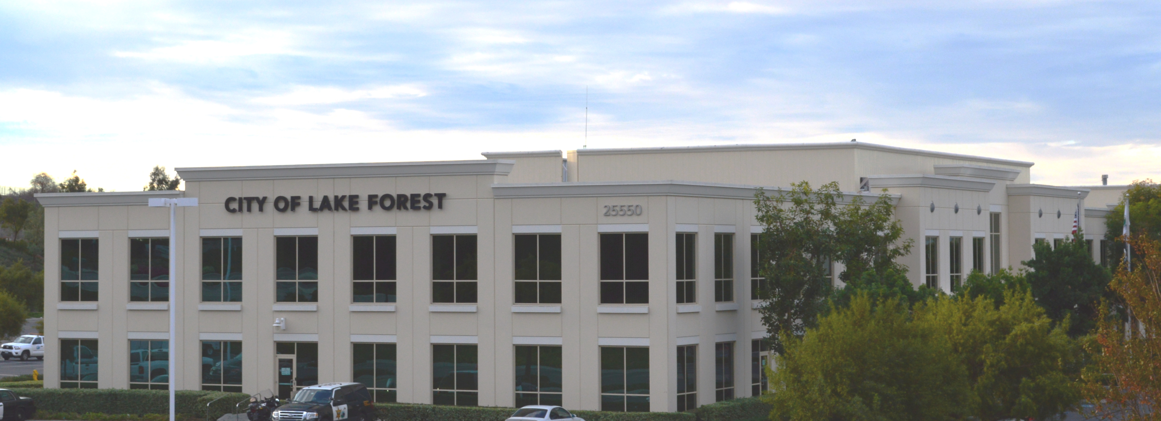 Lake Forest City Hall, California, U.S.A. The city does not own the building; it's part of a 5-building business park. A city-owned "Lake Forest Civic Center" is expected to open at a nearby location in 2018, according to a city representative that I talked to at the Grand Opening of Lake Forest Sports Park on November 1, 2014.